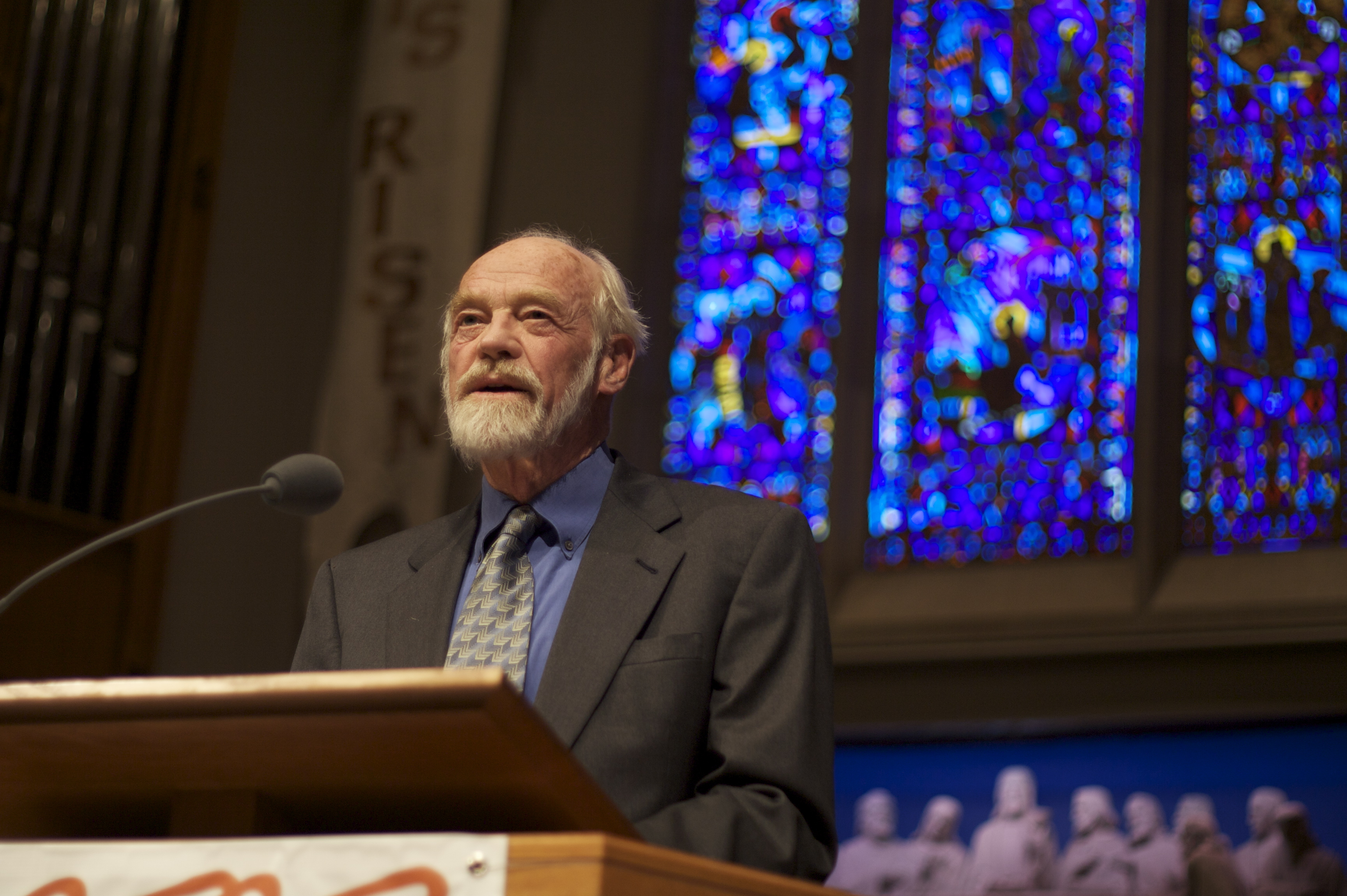 Eugene Peterson lecture at University Presbyterian Church in Seattle, Washington sponsored by the Seattle Pacific University Image Journal.